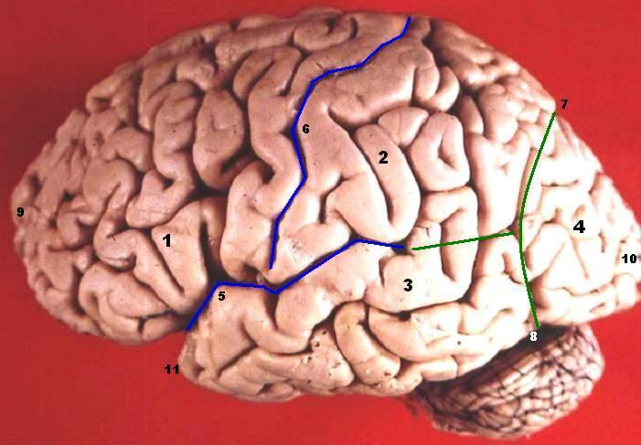 Human brain lateral view - Lobes Lobus frontalis Lobus parietalis Lobus temporalis Lobus occipitalis Sulcus lateralis Sulcus centralis Sulcus parietooccipitalis Incisura preoccipitalis Polus frontalis Polus occipitalis Polus temporalis The most rostral part of the Forebrain is the Cerebrum or Telencephalon made up of two Cerebral Hemispheres. The Cerebrum has an outer, highly stratified layer of gray matter called the Cerebral Cortex which is thrown into a series of folds or Gyri (singular = gyrus) which greatly increase the surface area of the cortex. The grooves between the gyri are called Sulci (singular = sulcus). Deep grooves are often referred to as Fissures. Deep to the cortex is the white matter along with several large nuclei located internally called Basal Ganglia. Note the Frontal, Temporal, and Occipital Poles. The Poles are reference points indicating the furthest extent of the Frontal & Temporal Lobes anteriorly, and the Occipital Lobe posteriorly. The Cerebrum is divided into 5 Lobes. On the lateral surface the Frontal Lobe is separated from the Parietal Lobe by a fairly regular sulcus (Central Sulcus) which passes vertically and slightly obliquely through the central portion of the hemisphere. The Temporal Lobe is separated from the Frontal & Parietal Lobes by the deep Transverse Fissure which continues posteriorly as an imaginary line which intersects the middle of the occipital-parietal line. The Occipital Lobe is separated from the Parietal and Temporal Lobes by an imaginary vertical line passing between the Preoccipital Notch or indentatation and the Parieto-occipital Sulcus which starts at the superior surface then extends inferiorly on the medial surface. (font: arial black, size: 14 and 10)